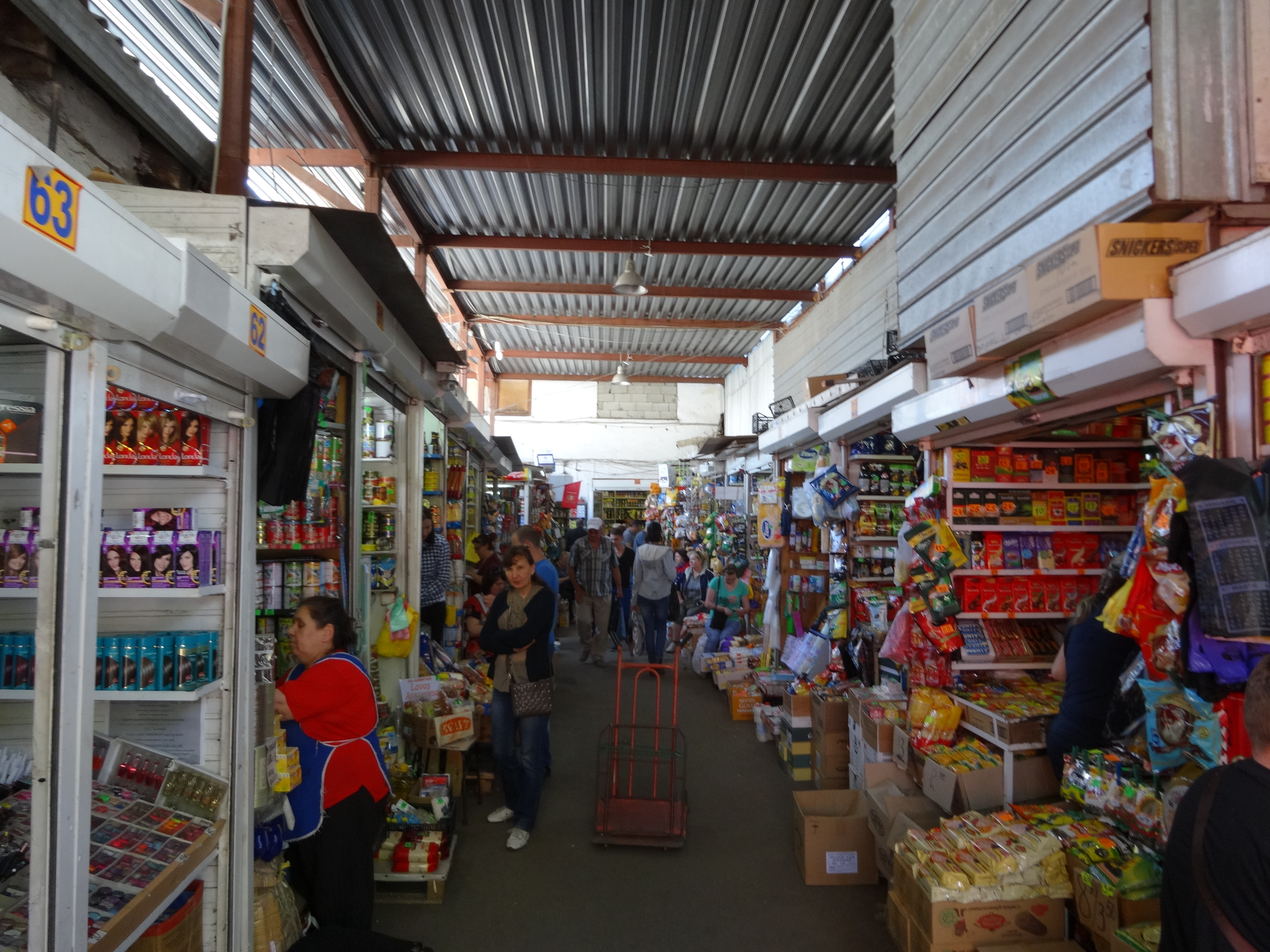 Chișinău bazar